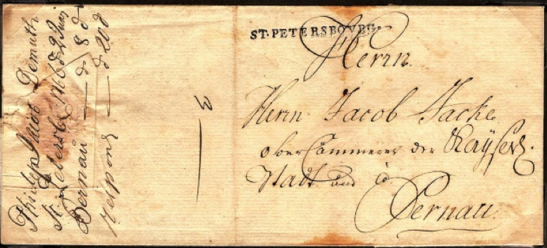 First Russian postmark